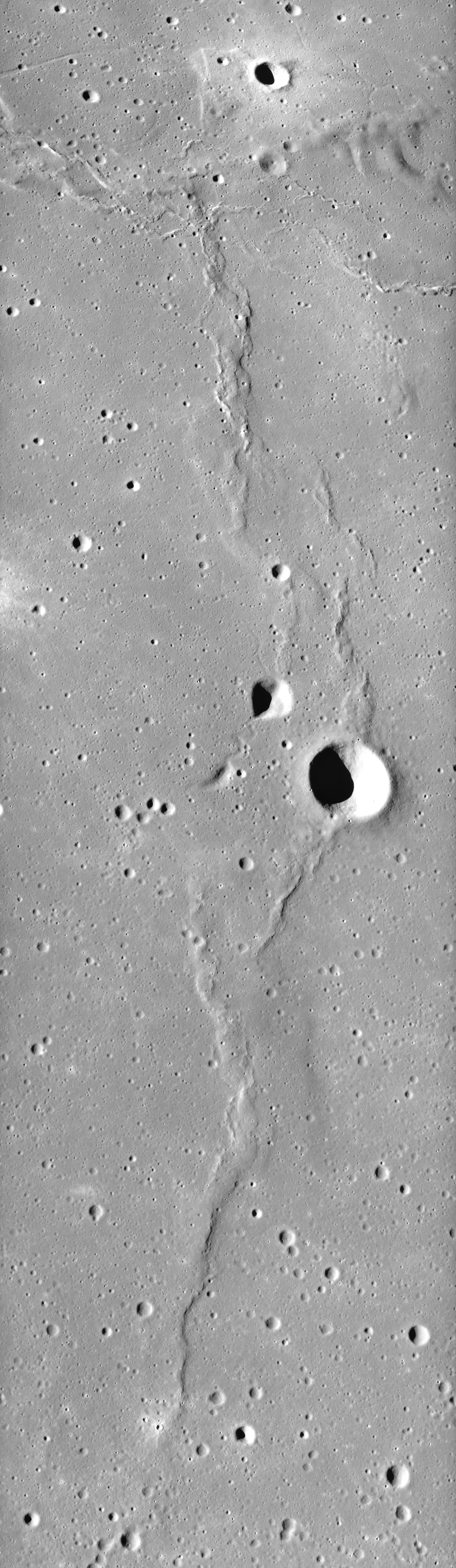 Slightly oblique view facing south of Dorsum Gast, western Mare Serenitatis, on the moon. Taken by Apollo 15 panoramic camera.